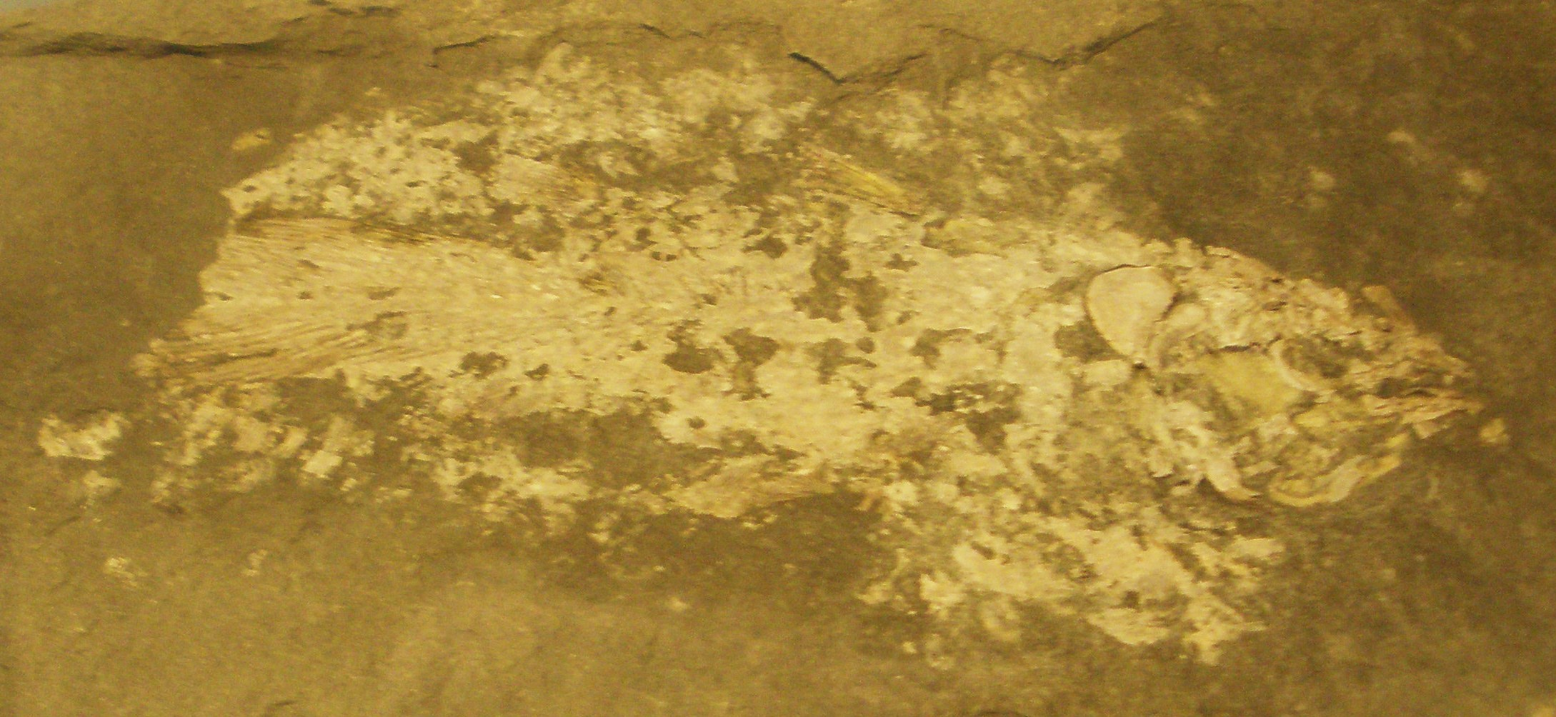 fossil ticinepomis